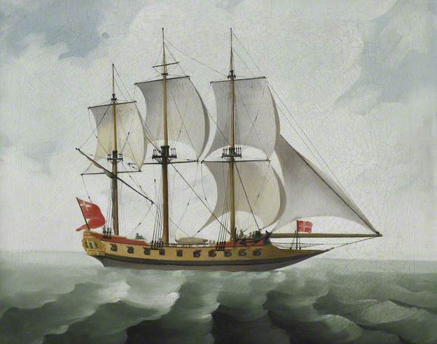 (c) British Library; Supplied by The Public Catalogue Foundation